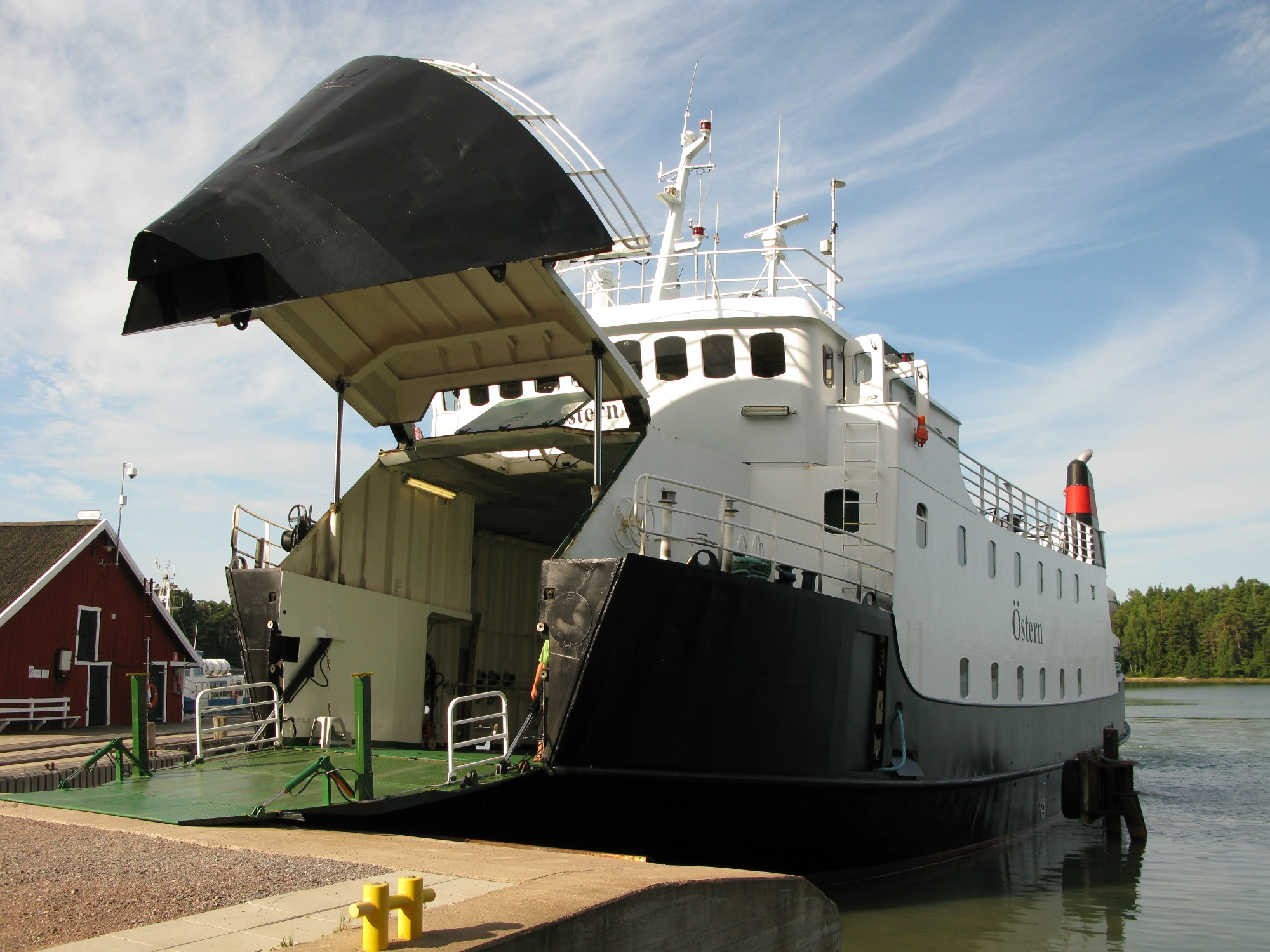 M/S Östern at Själö ferry harbour, Finland.